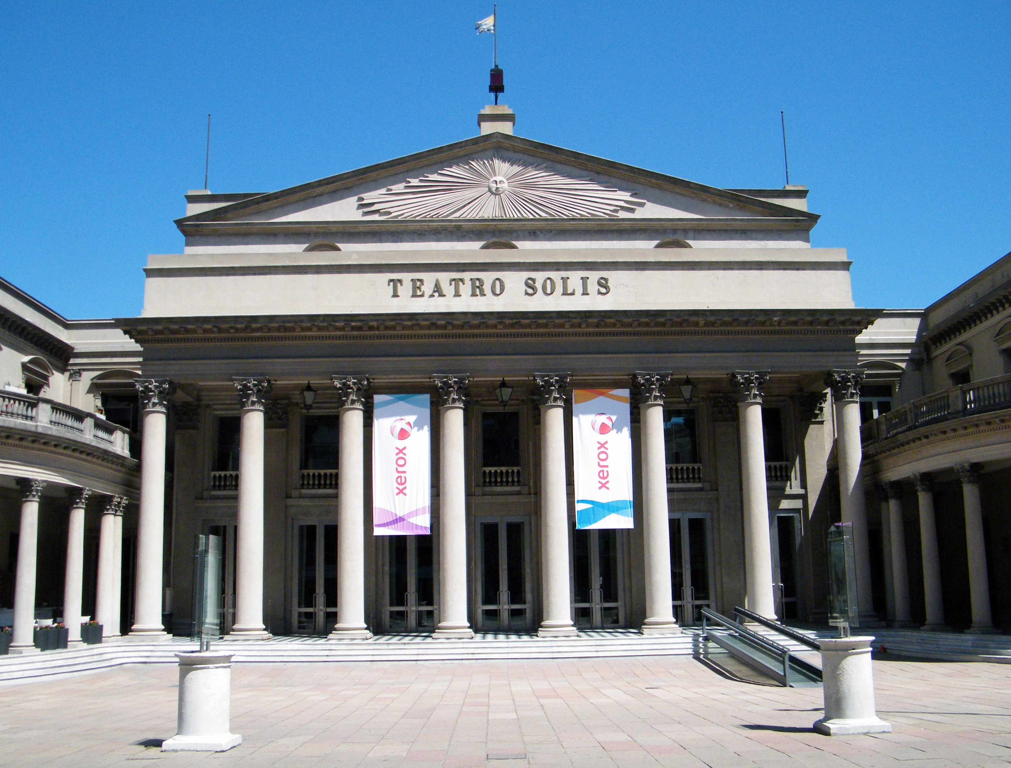 Teatro Solis in Montevideo, Uruguay. Photographed by user Coolcaesar on November 19, 2012.